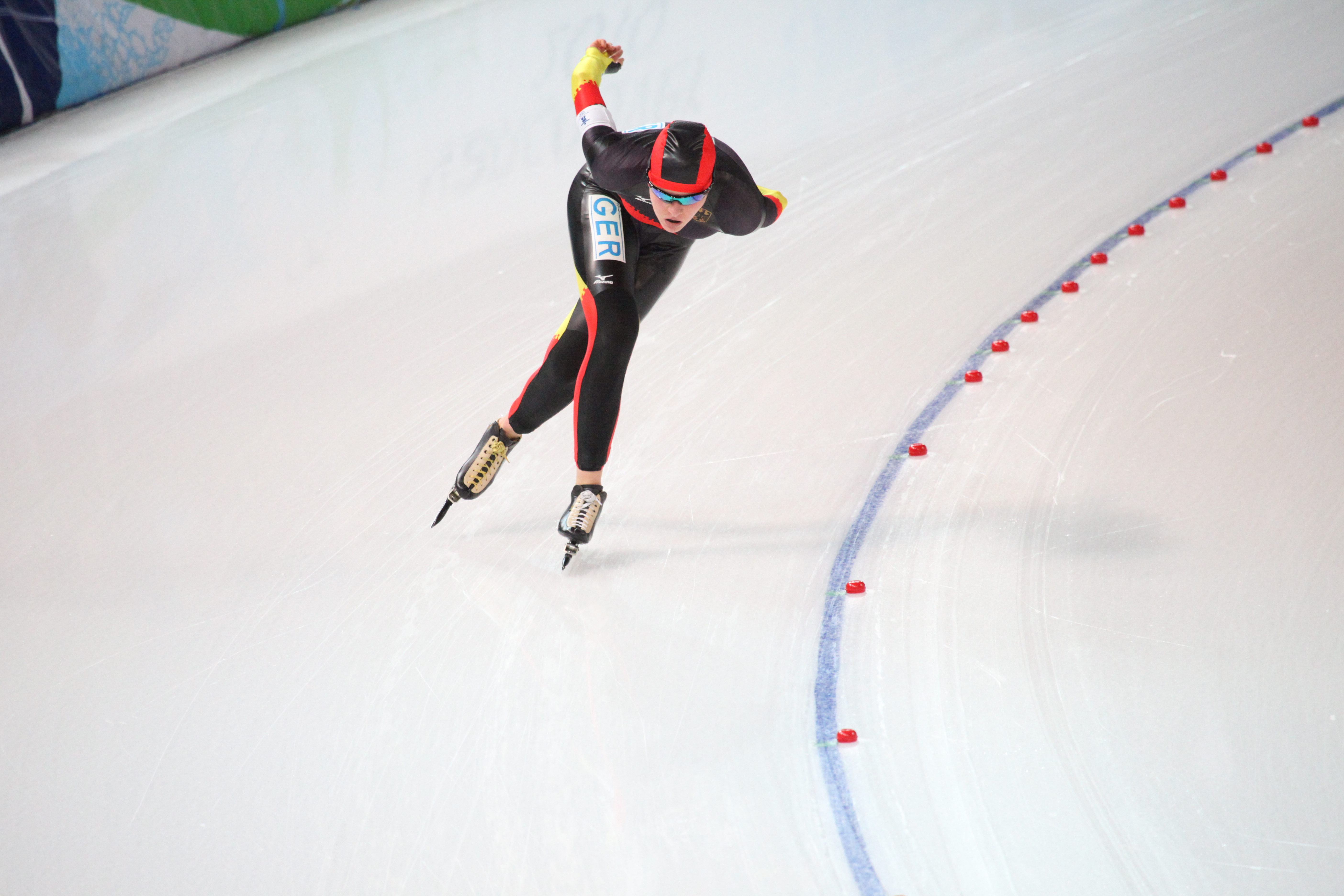 Stephanie Beckert at the Women's 5000m final.